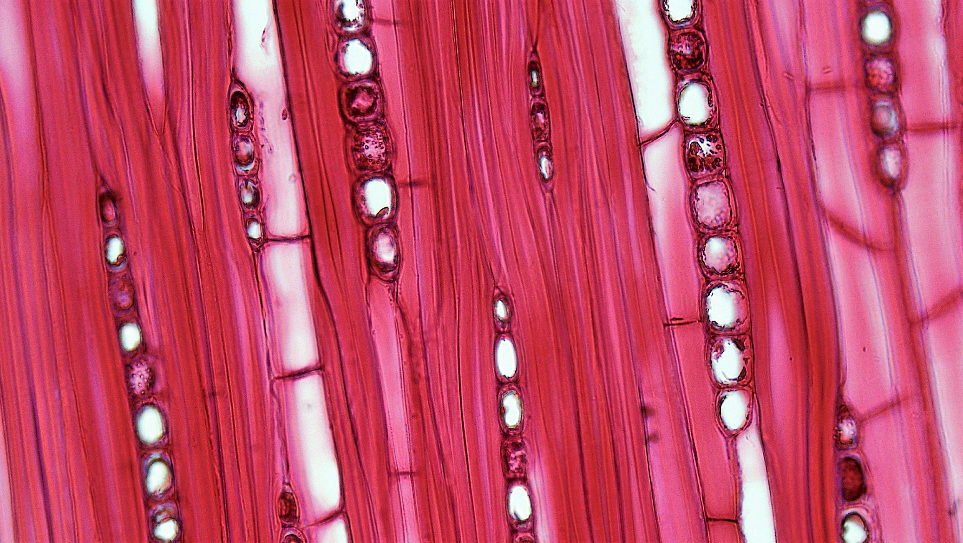 Tangential section: Quercus stem wood Magnification: 400x iron-alum hematoxylin and safranin stain Longitudinally oriented bands of narrow, pale staining tracheids are inter spaced with patches of dark staining xylem fibers (labriform). Small and medium size xylem vessels can be seen in the center of the field. Emerging at right angles are numerous narrow xylem rays, largely composed of living parenchyma cells